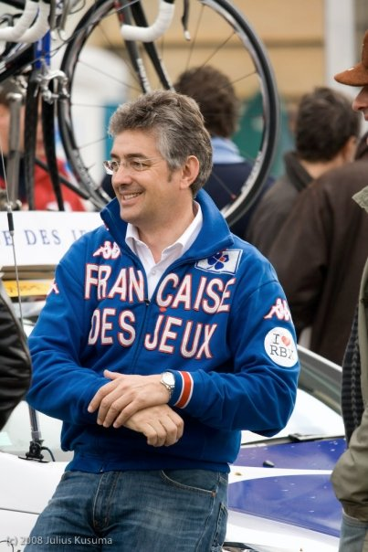 Marc Madiot at the 2008 Paris Roubaix start village